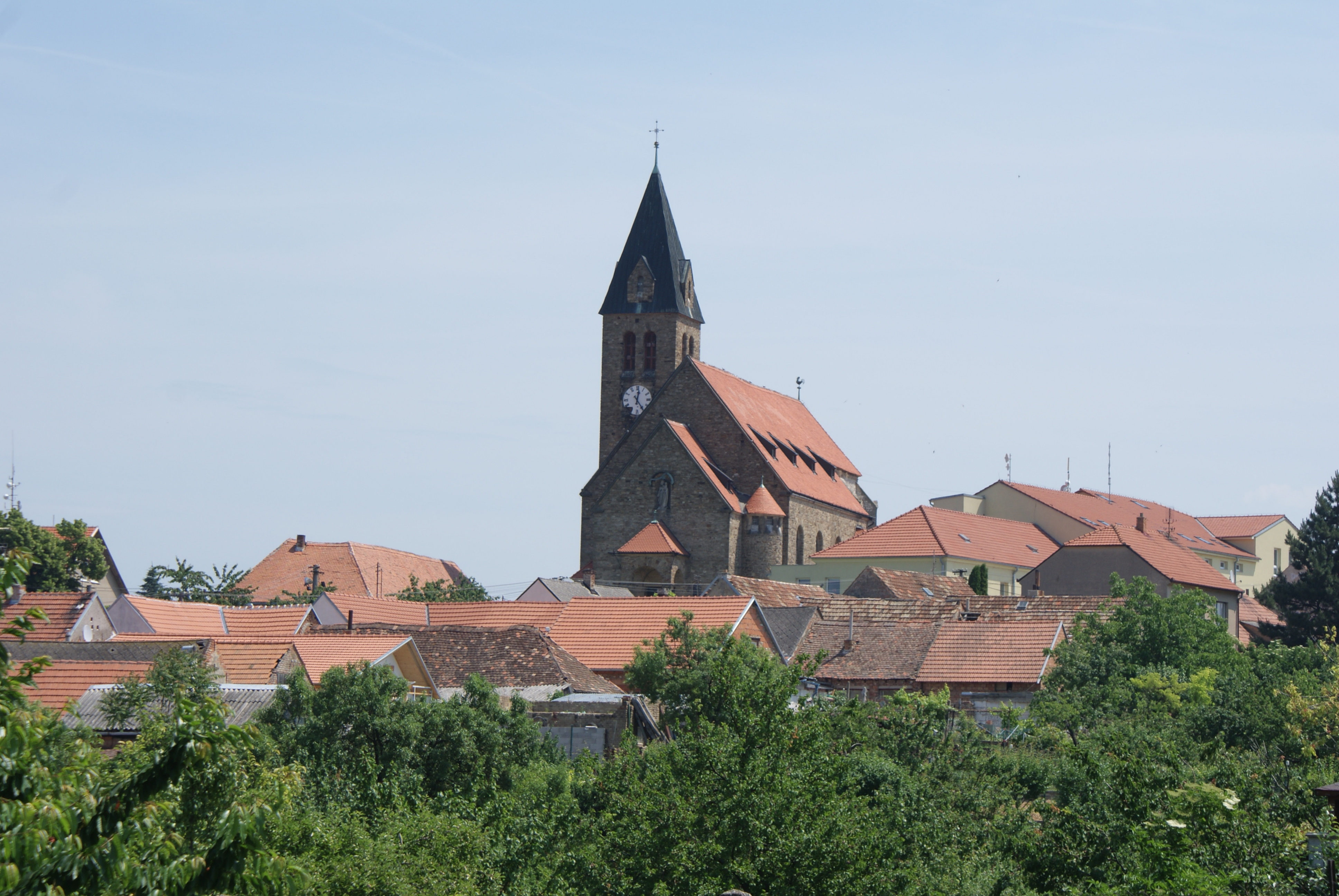 Zaječí, a village in Břeclav District, Czech Republic, view of the church of St John the Baptist.